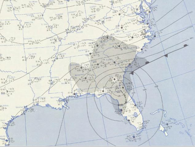 Surface weather analysis of Hurricane Easy on 7 September 1950.